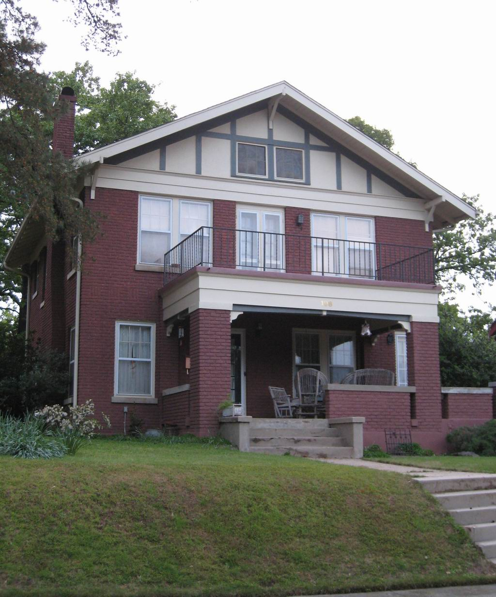 This structure at 108 Thayer reflects the American Foursquare style of construction, in this case embellished with English Revival-style details. Little Rock, Arkansas